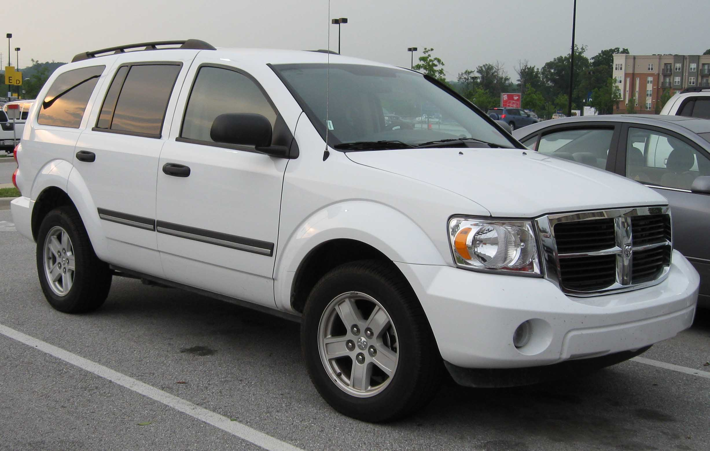 2007-2008 Dodge Durango photographed in College Park, Maryland, USA.